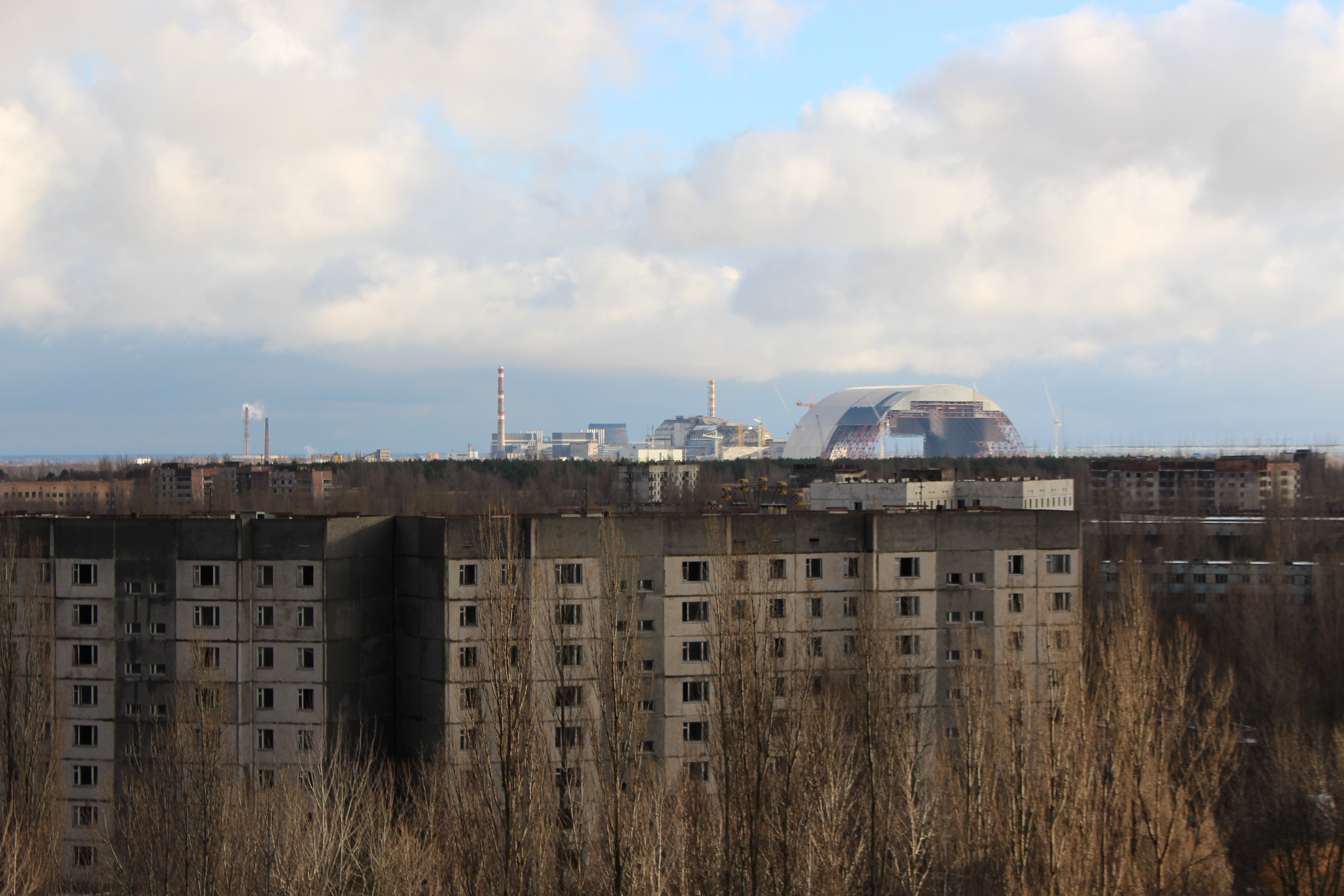 Chernobyl Exclusion Zone.